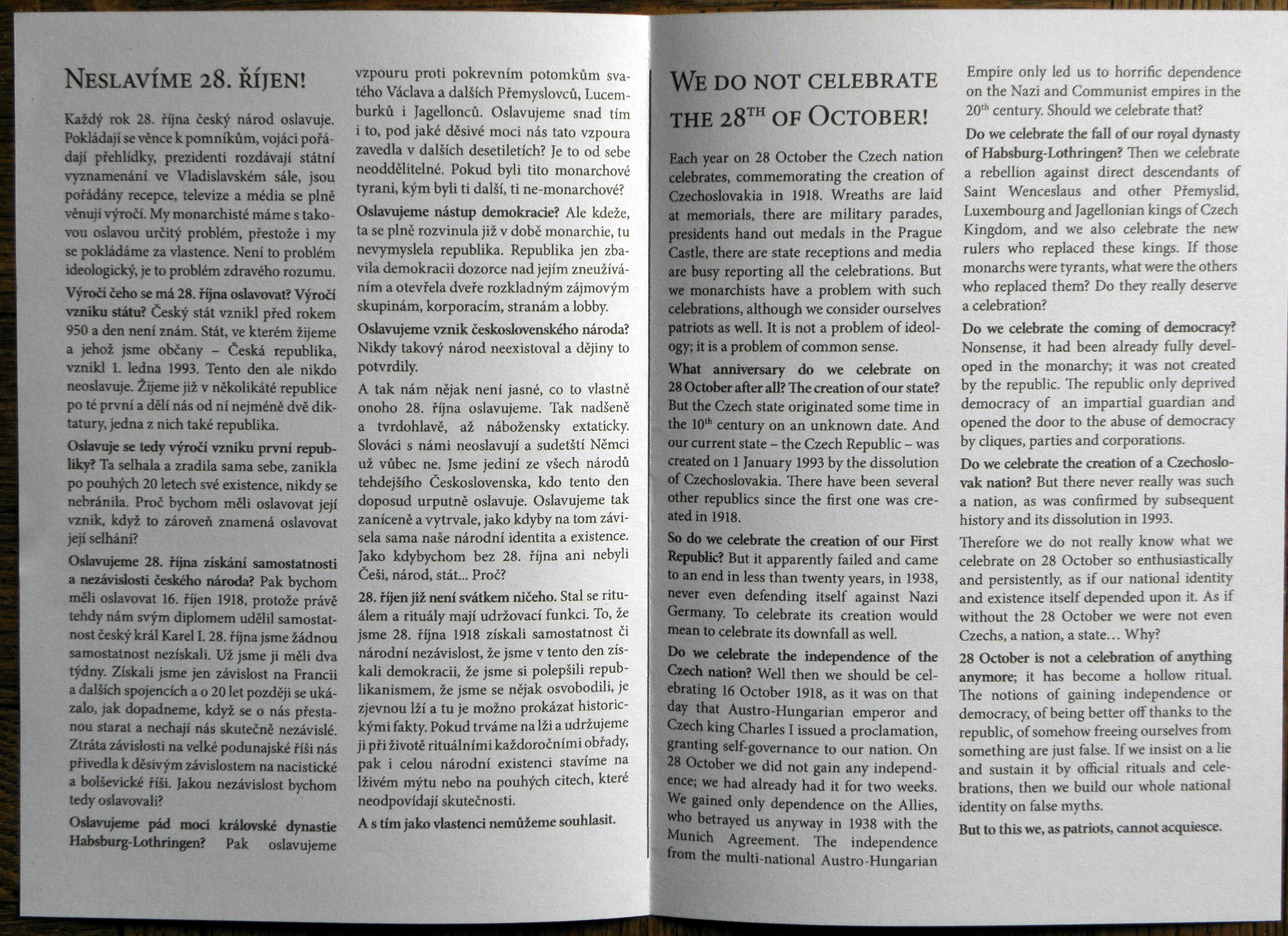 28 October handout